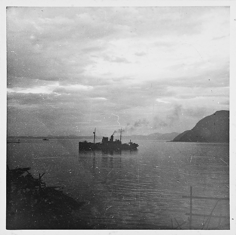 Image from "Photo Album from Terboven's journey to Nothern Norway and Finland 10–27 July 1942" (Mit dem Reichskommissar nach Nordnorwegen und Finnland 10. bis 27. Juli 1942), 375 images uploaded to www. by Riksarkivet (National Archives of Norway) 2012. See scanned album here